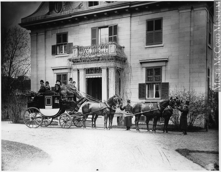 Photograph Hugh Paton and friends at Andrew Robertson's house on Dorchester Street, Montreal, QC, 1884 Wm. Notman & Son 1884, 19th century Silver salts on glass - Gelatin dry plate process 20 x 25 cm Purchase from Associated Screen News Ltd. II-73472 © McCord Museum